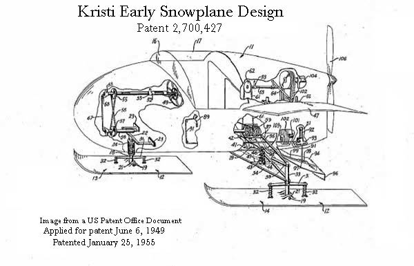 Patent Office image of a Kristi Snowplane design featuring adjustable ski action.